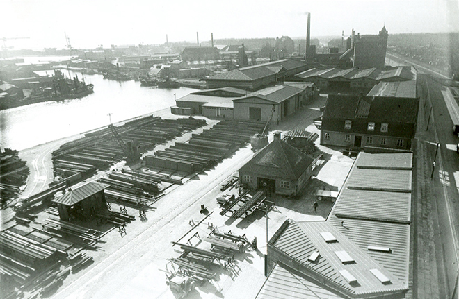 Lemvigh-Müller & Munck's site at what is now Frederiks Brygge in the South Harbour of Copenhagen, Denmark